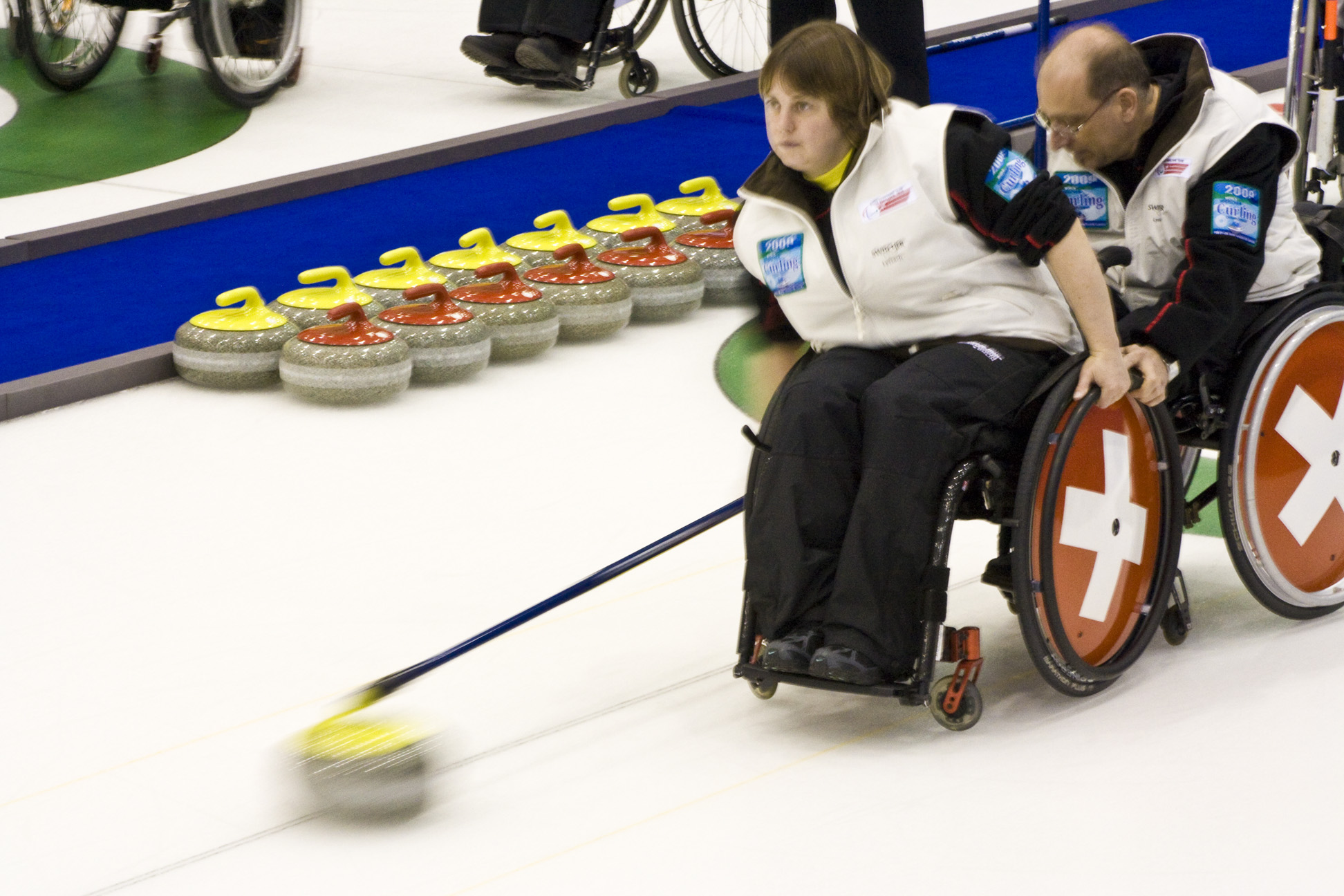 Team Switzerland: Melanie Villars and Anton Kehrli